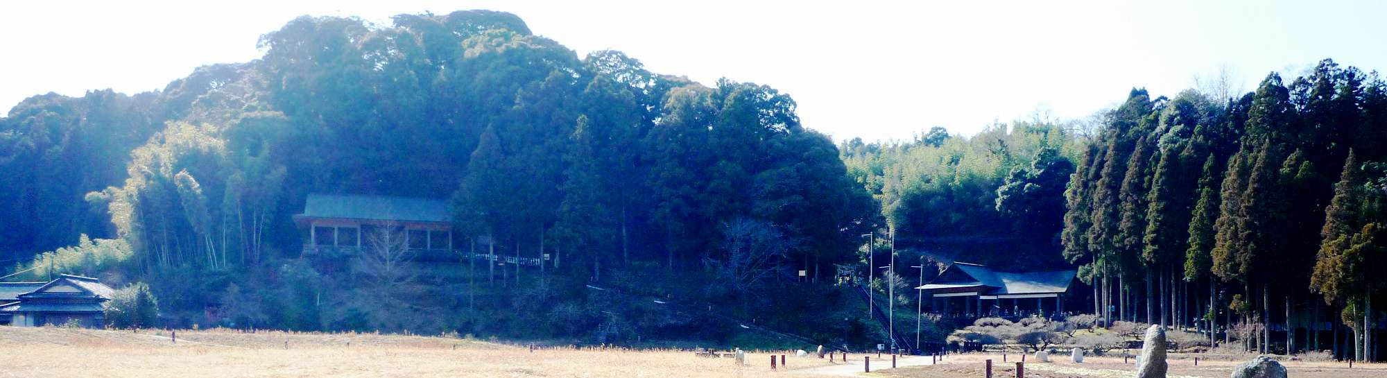 Panoramic view of Usuki Stone Buddhas